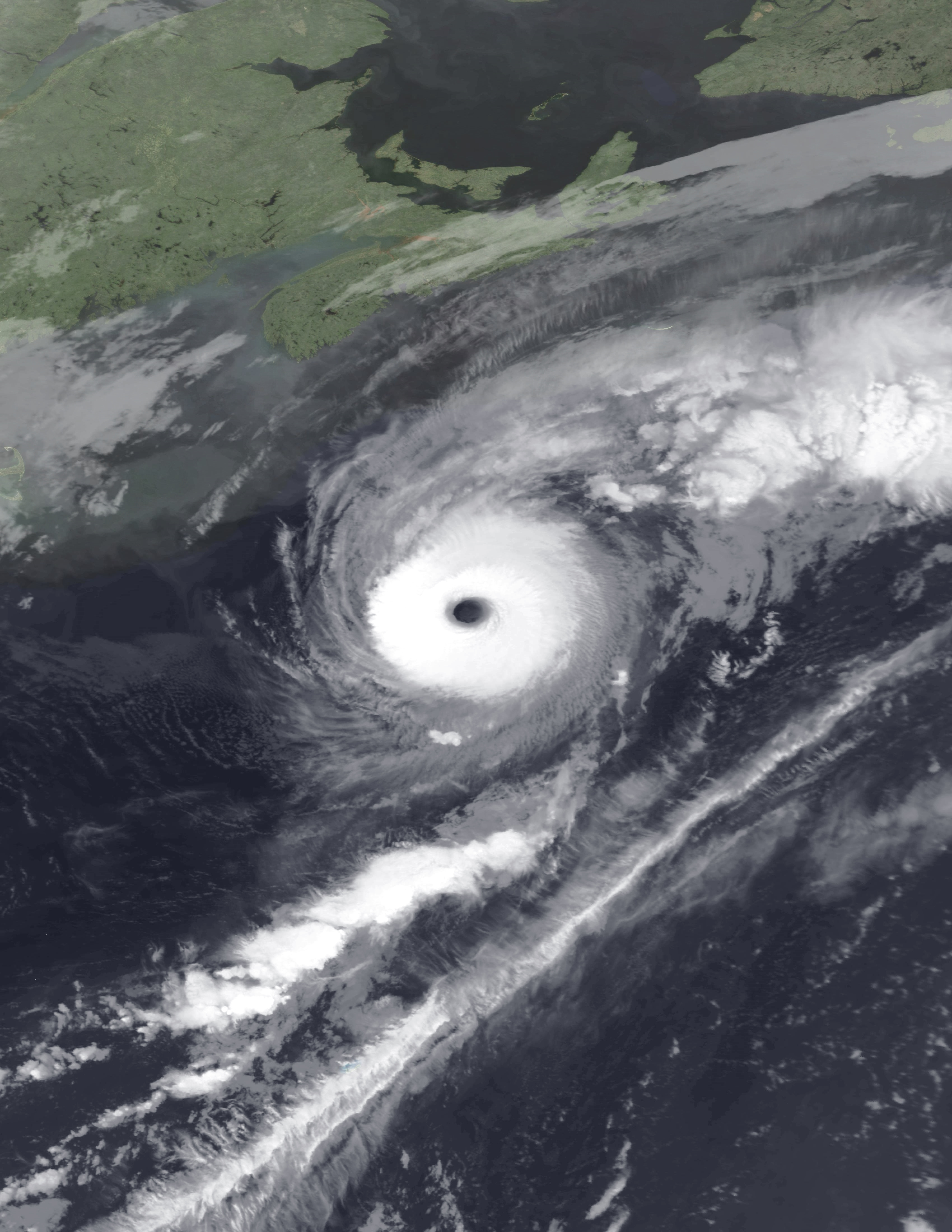 Hurricane Alex at peak intensity south of Nova Scotia on August 5, 2004.